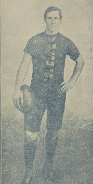 Photo of Jim Fitzpatrick taken before 1913